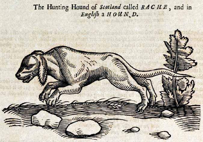 Drawing 1st published in Gessner's Historiae Animalium in the 16th C. This is from 17th C copy. Edward Topsell's History of Four Footed Beasts